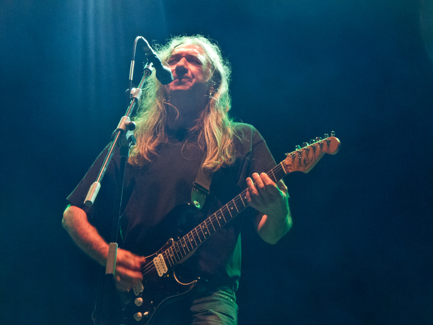 Rosendo performing in 2012.